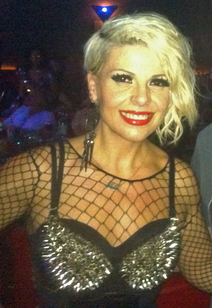 Aurela Gaçe after a concert in Zurich, Switzerland